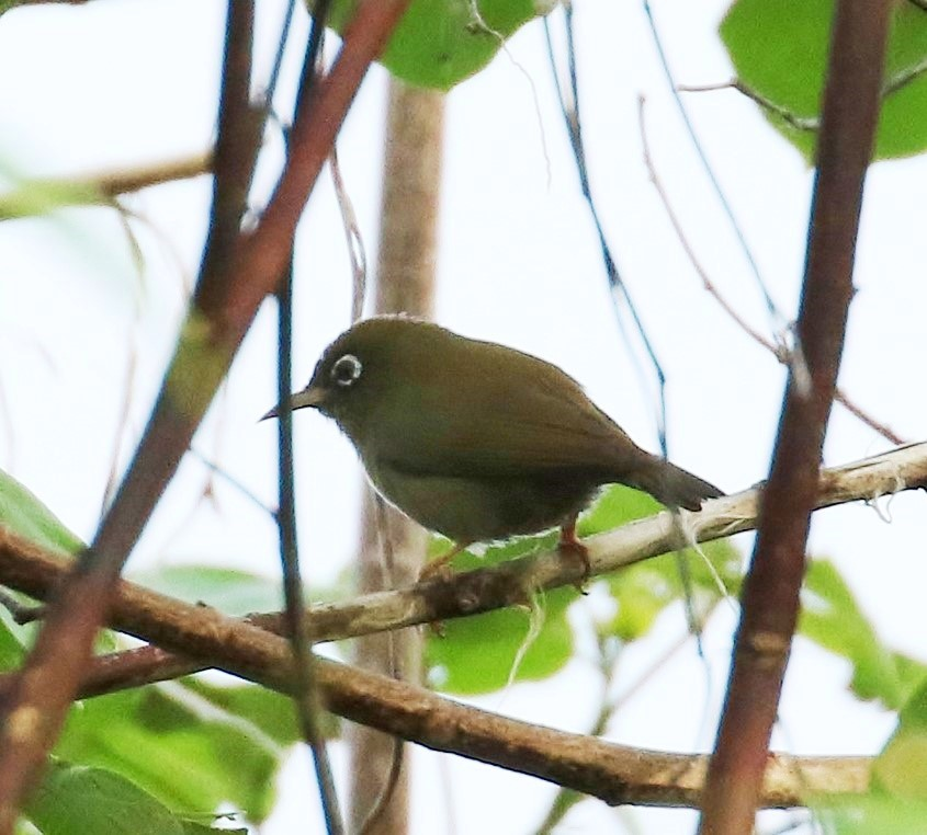 Zosterops oleagineus - Yap White-Eye. Species of bird.